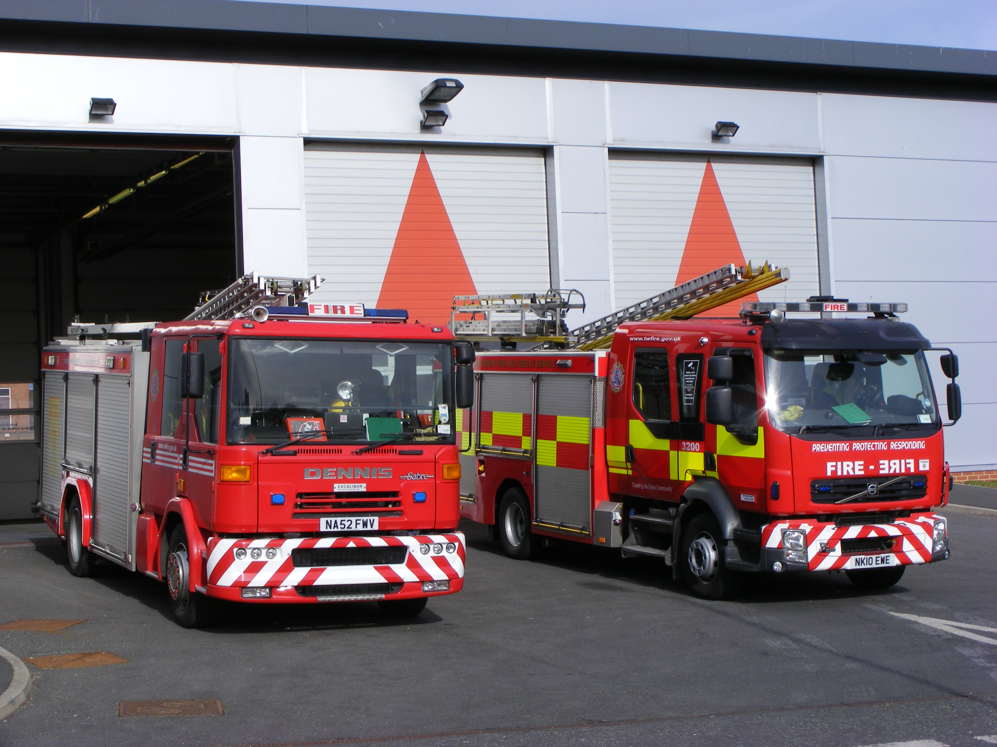 A 2002 registration fire appliance (left) and a 2010 registration fire appliance (right) belonging to Tyne and Wear Fire and Rescue Service, pictured on the forecourt outside the home station of Sunderland Central in North Moor, Sunderland. The image illustrates the change from traditional Tyne and Wear livery on all appliances registered before 2009 to the current battenburg markings used on all new appliances. It also illustrates the alteration between Dennis Sabre appliances and Volvo. Image taken on February 25th, 2012 by Fire Engine Mad Sam (Flickr user).